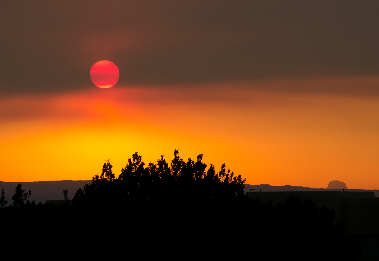 Smoke from Wallow fire in Albuquerque, sunset, June 7, 2011. We stopped on the way home from the airport last night to snap this image of the sky, smoked up from the Arizona forest fires.